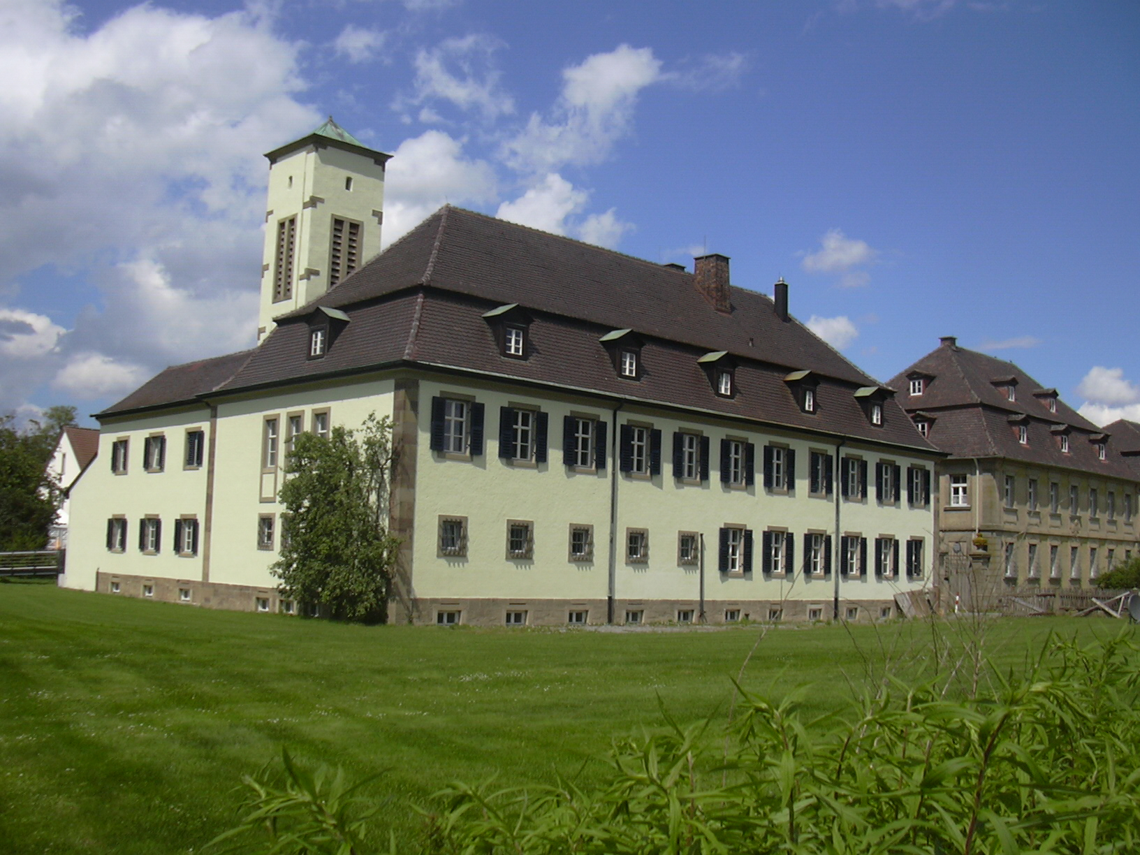 Maria Bildhausen, former monastery, near Münnerstadt, Bavaria/Germany